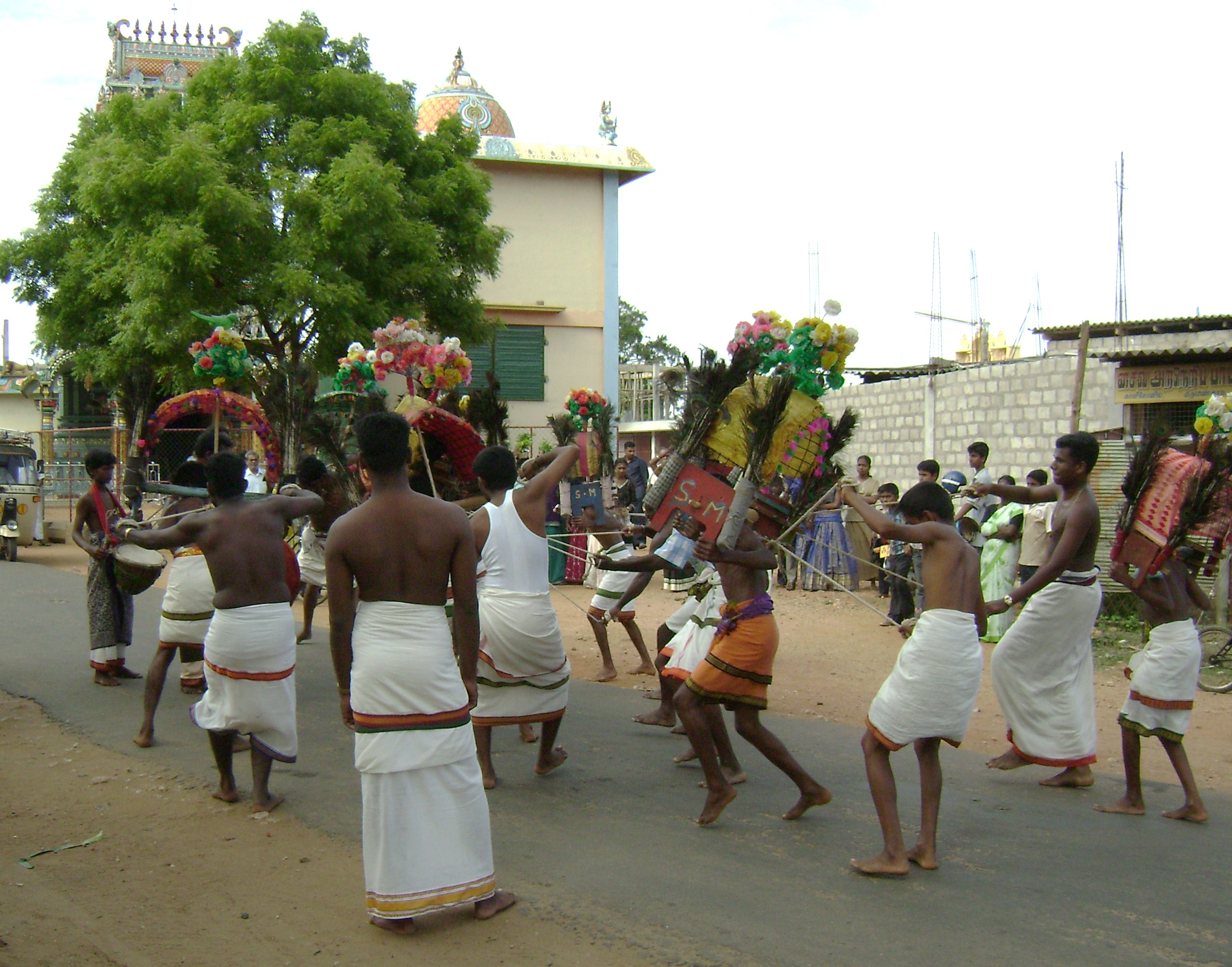 This is picture of tamil Devotees primitive dance known as kavadi